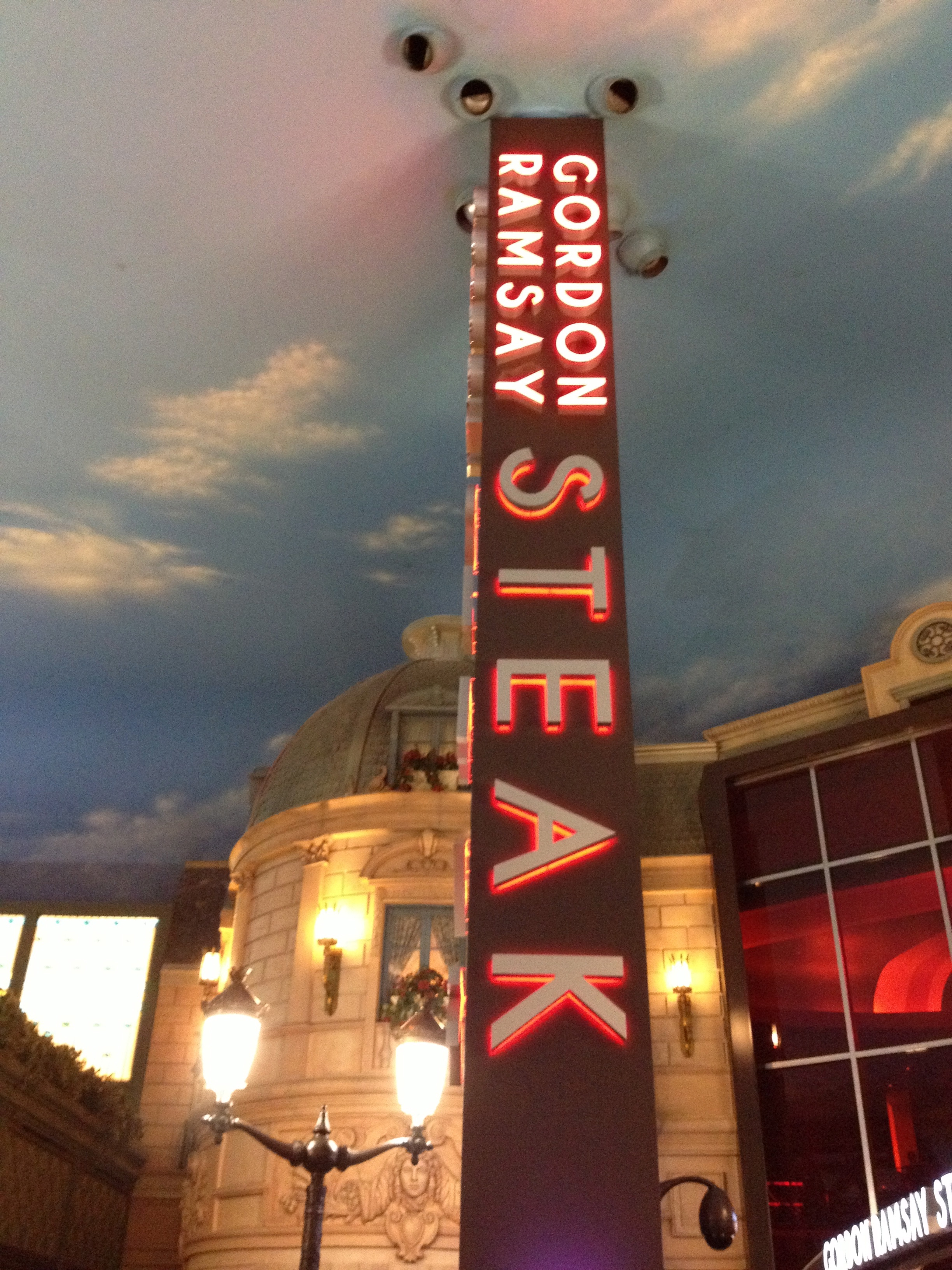 Gordon Ramsay Steak restaurant